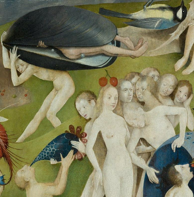 The Garden of Earthly Delights, central panel, detail.